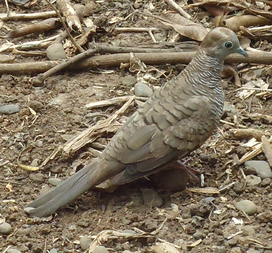 The Zebra dove (local name Bato-batong katigbe, Kurokutok, and Tukmo, a name also applied to other species of wild doves), Geopelia striata, Mindanao Island, Philippines